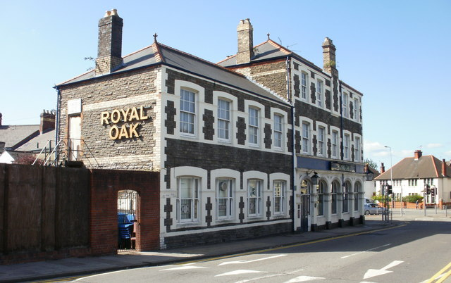 Large pub at 200 Broadway, Adamsdown, on the corner of, and viewed from, Beresford Road. Bed and breakfast accommodation is available. The pub dates back to at least the last decade of the 19th century. Until recently, there was a boxing gymnasium and ring on the first floor.